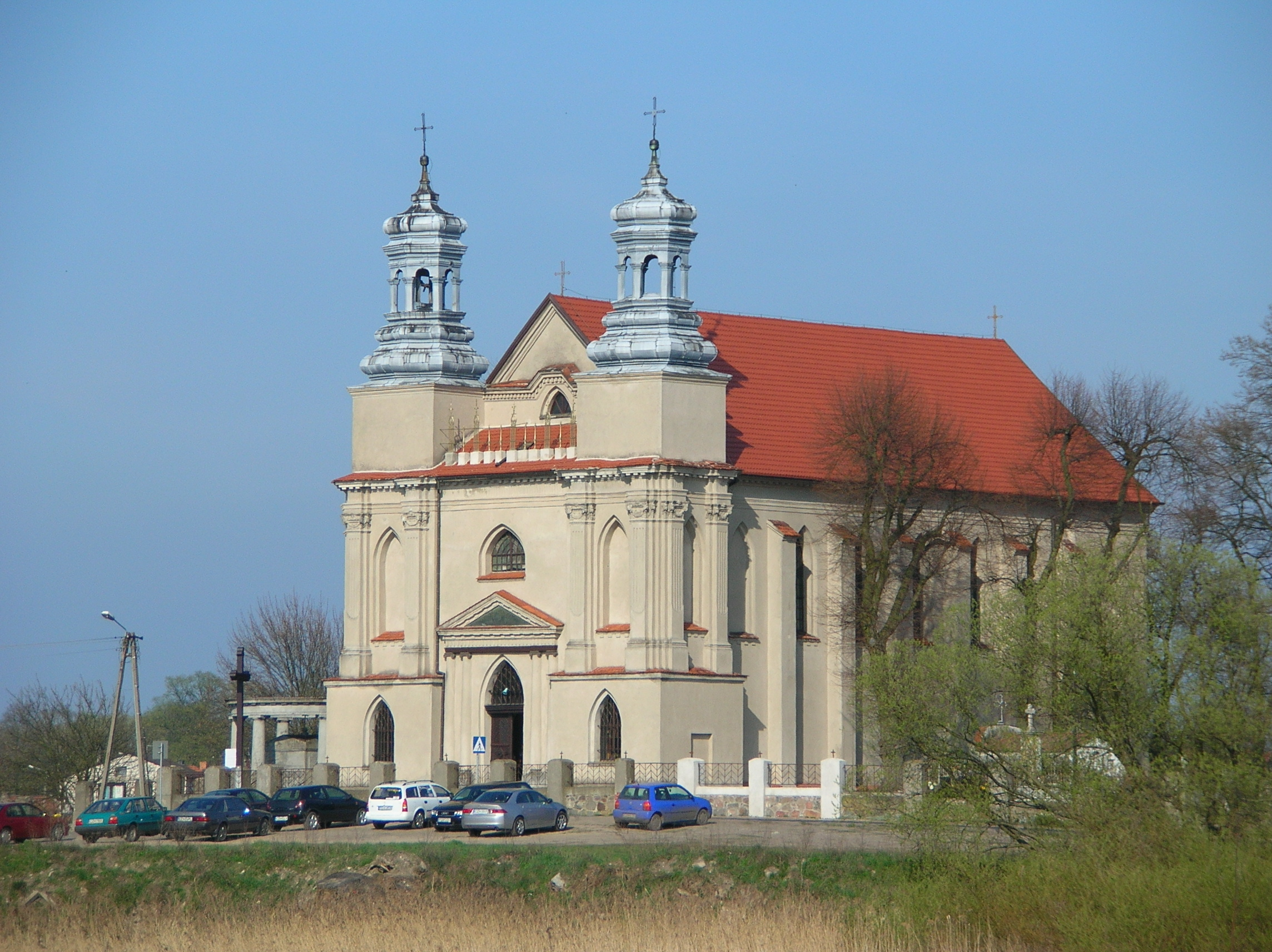 St. Dorota's church in Rogowo, 1828